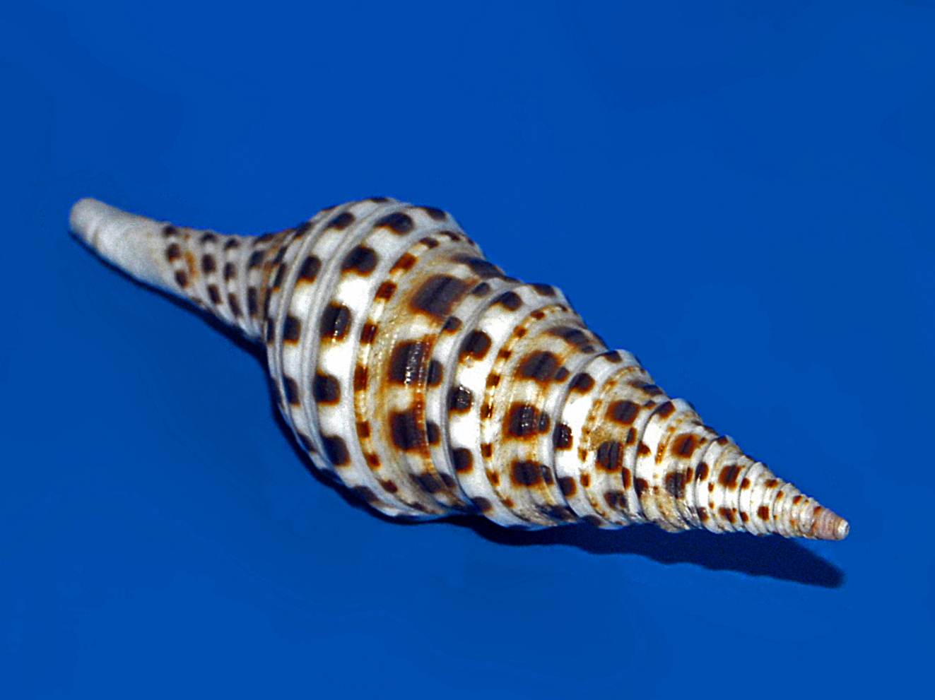 A shell of Turris babylonia from Philippines, on display at the Museo Civico di Storia Naturale di Milano